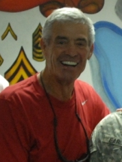 Command Sgt. Maj. Wilson L. Early, 36th Infantry Division, poses with professional football head coaches (left to right) Jim L. Mora, Jim E. Mora, Ken Whisenhunt and Gary Kubiak during their visit to Contingency Operating Base Basra, July 4. COB Basra was the last stop of a tour of military bases in Kuwait and Iraq sponsored by the National Football League and the United Services Organization.